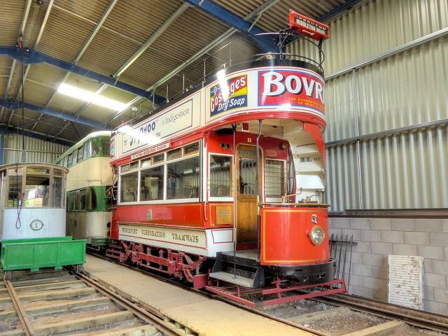 Stockport Number 5, Heaton Park Tramway Museum. Owned by the Stockport 5 Tramway Trust, number 5 is the sole survivor of Stockport Corporation’s tram fleet. It was delivered in 1901 and worked at Stockport until withdrawn in 1948. The tram was fully restored in 1996 and moved to Blackpool where it saw limited use before going to Doncaster in 2002 to help the town celebrate 100 years of public transport after which, it was returned to Blackpool. It was moved to the Heaton Park Tramway Museum in 2011. Following restoration over the winter of 2012, 5 was relaunched in March 2013, complete with period-style adverts.